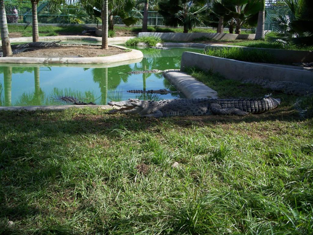 Crocodile Park in Davao City, Philippines